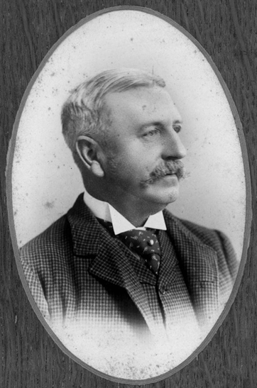 William Alcock Tully, Surveyor General of Queensland (Australia) 1875 – 1889